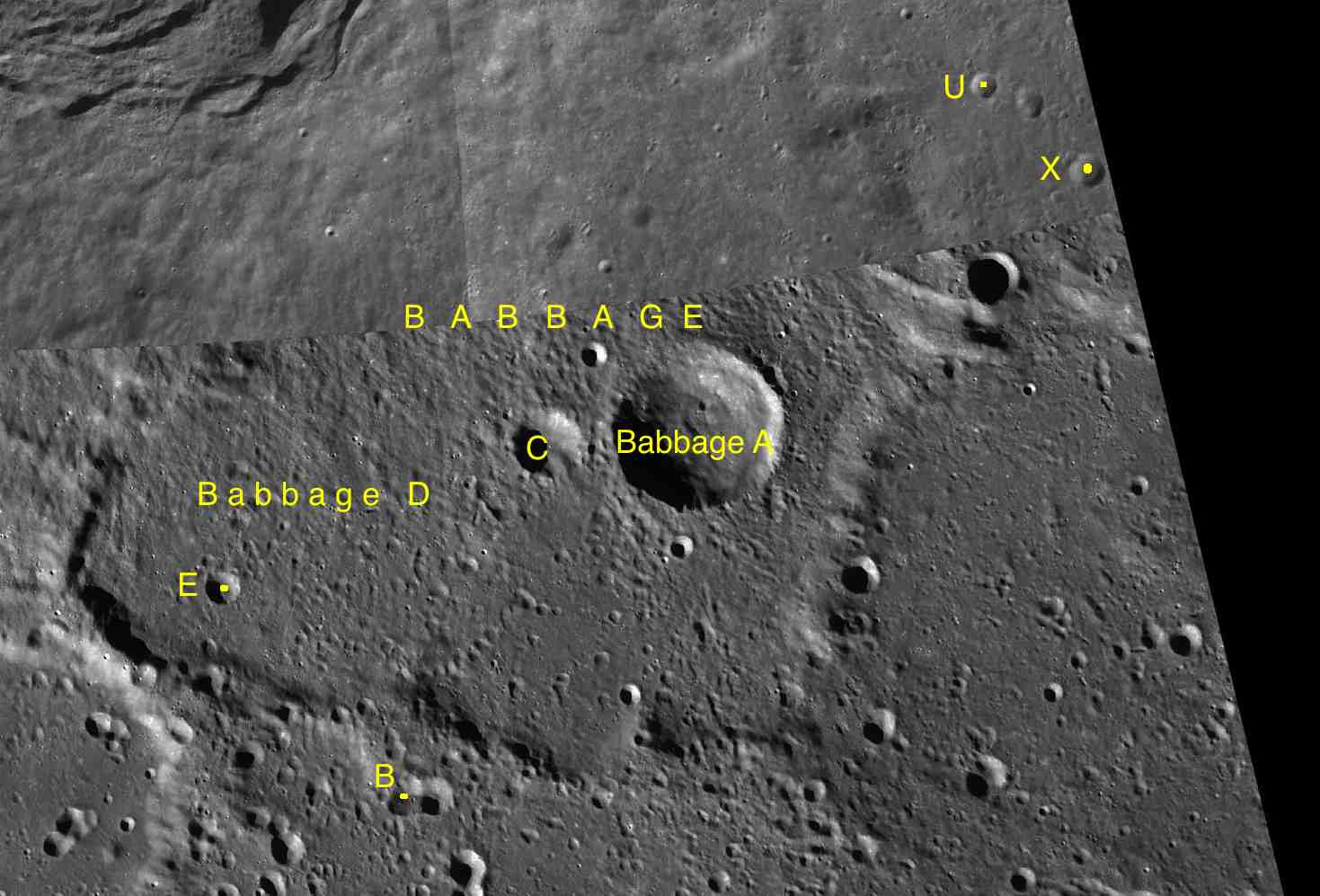 Part of the chart LAC-10 used for the presentation